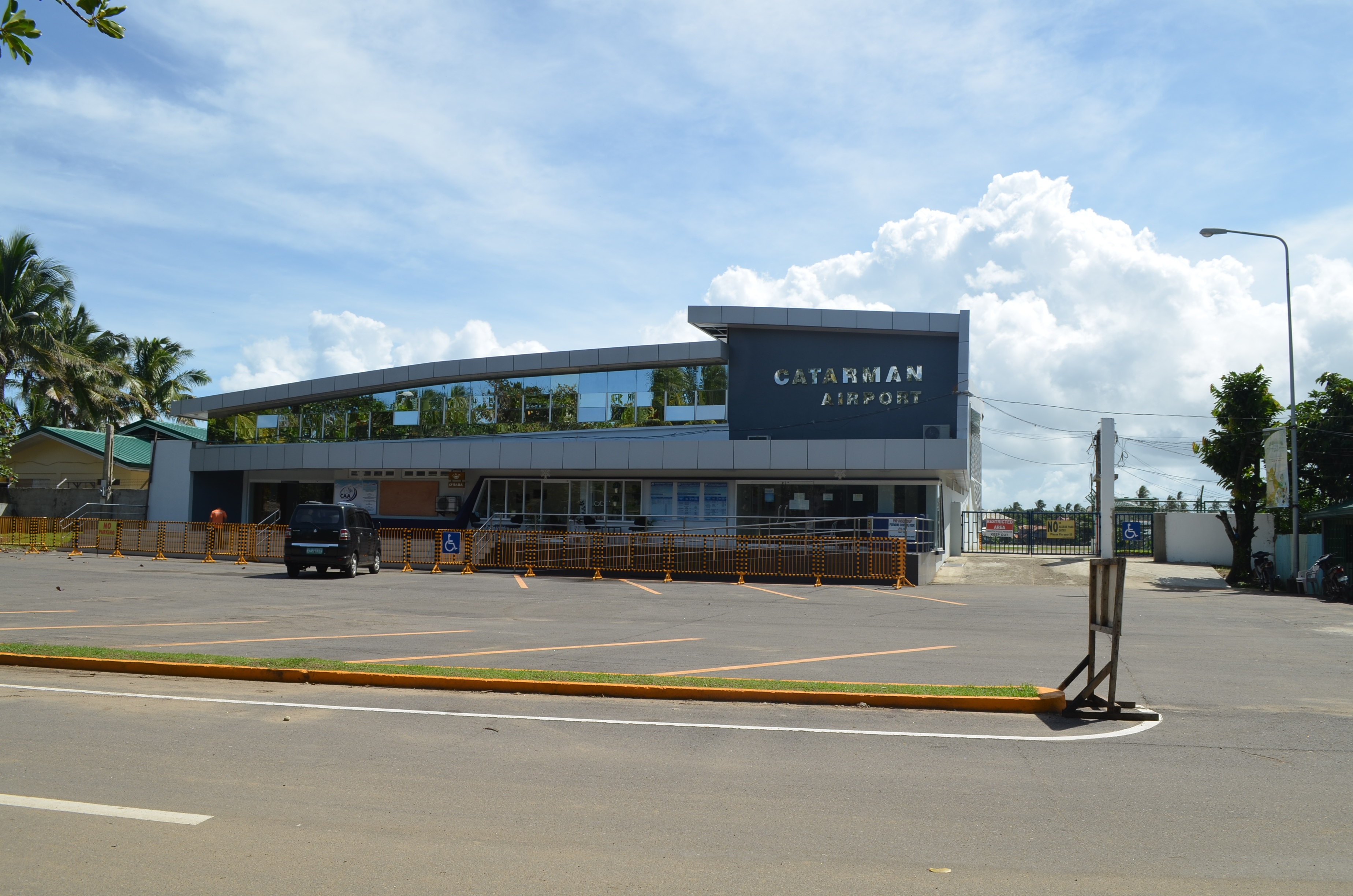 Taken during the December 2015 Sinirangan Bisaya Wikimedia Community activities in Eastern Visayas